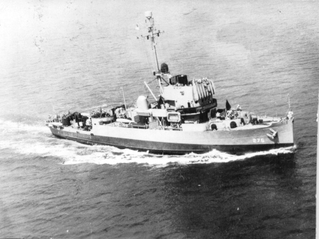 USS Pivot (AM276), Shake Down Cruise 12 July 1944, Gulf of Mexico. The photo was taken by a US Navy PBY flying out of Pensacola NAS. The photo was obtained from the National Archives.